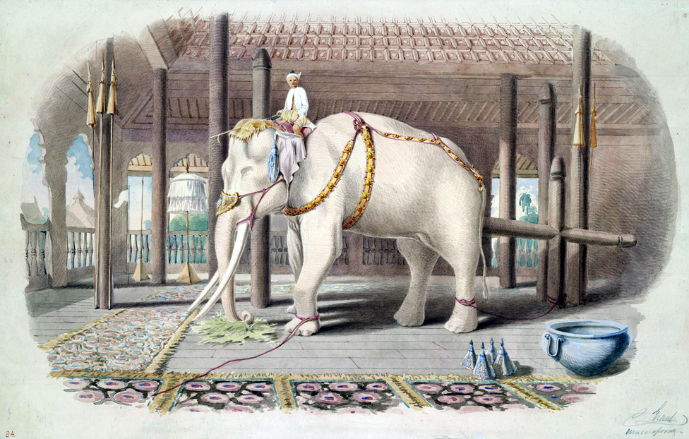 Watercolour with pen and ink of the “Lord White Elephant”, a rare and auspicious white elephant kept by the King at Amarapura. Grant wrote that: 'This noble looking animal has lately died, and there is none, it is believed, to fill his place. He had occupied his late royal position for upwards of fifty years, and was said at the time of the Mission (September-October 1855) to be about 60 years old...and he was said, also, at the time, to be sickly, or out of condition. The eye, however, which was peculiar, was full of mischief: the king himself remarked that his temper had always been uncertain. He was ridden only by his mahout, who was invariably seated on his neck when visitors were expected. The colour of the animal was a cream or very light dun; his height was about ten feet, and his magnificent tusks nearly touched the ground...He was 'right royally caparisoned' in bands of crimson cloth or velvet and gold, studded with large bosses of gold...His ears were decorated with large silver tassels, and over his head he wore an ordinary cloth of gold, his costlier gear being reserved either for state occasions or for exhibition to visitors at such times. These collectively are delineated in a separate plate...Above his head was suspended a white canopy, the exclusive privilege and insignia of Royalty. Fastened to the pillars are seen his golden umbrellas, and near one of the windows, a white fringed umbrella, or canopy, and other ornamental items of furniture indicative of Royal rank and privilege. In the foreground are a variety of conic shaped vessels, glittering in gold and silver and mosaic; and near to them a gigantic jar of silver, containing water, all used either for drinking or bathing purposes.'